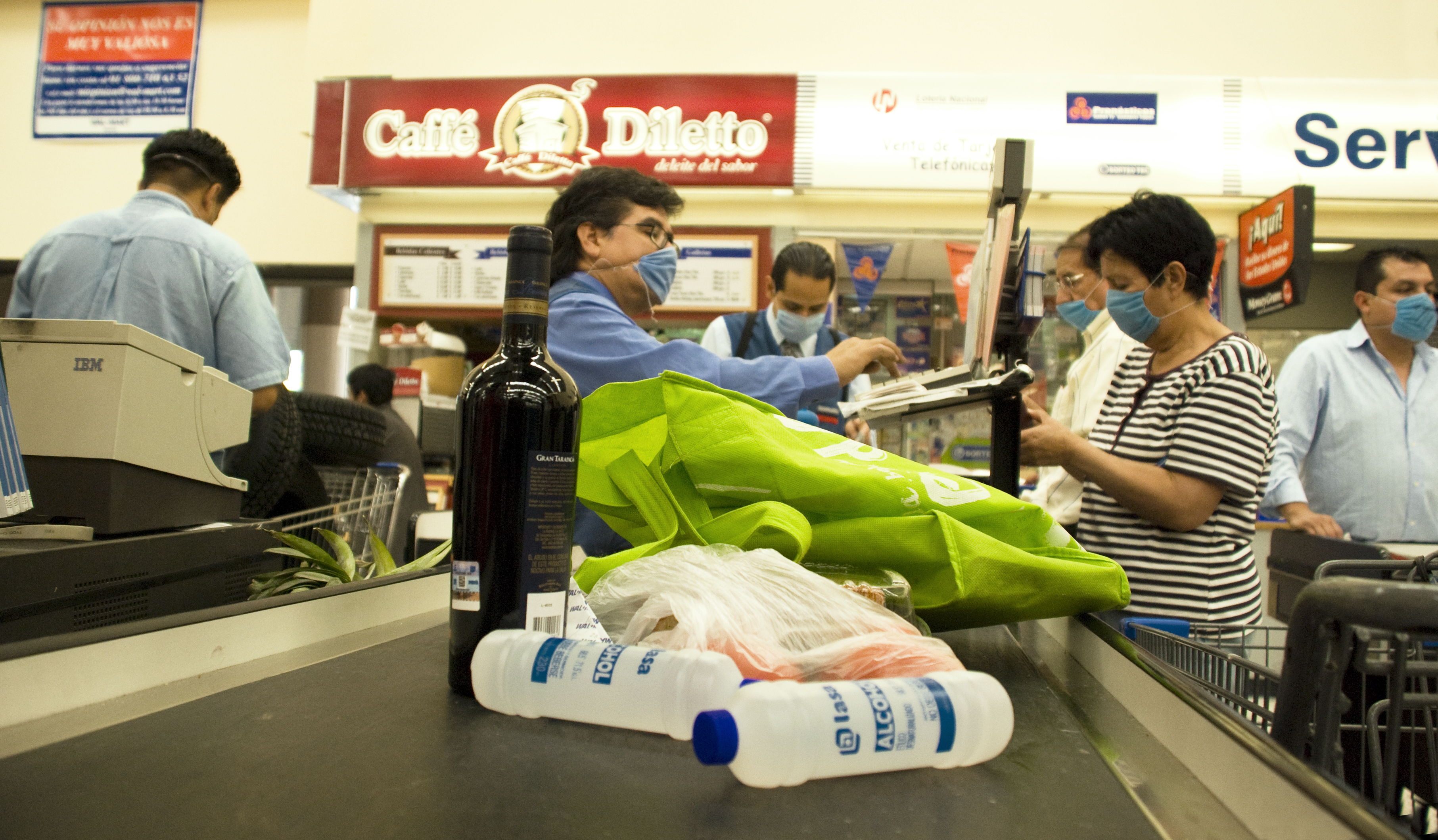 Quesque porque el alcohol mata al bicho. Yo tomo mis precauciones. "They told me to get alcohol" Because they say it kills the virus. -)